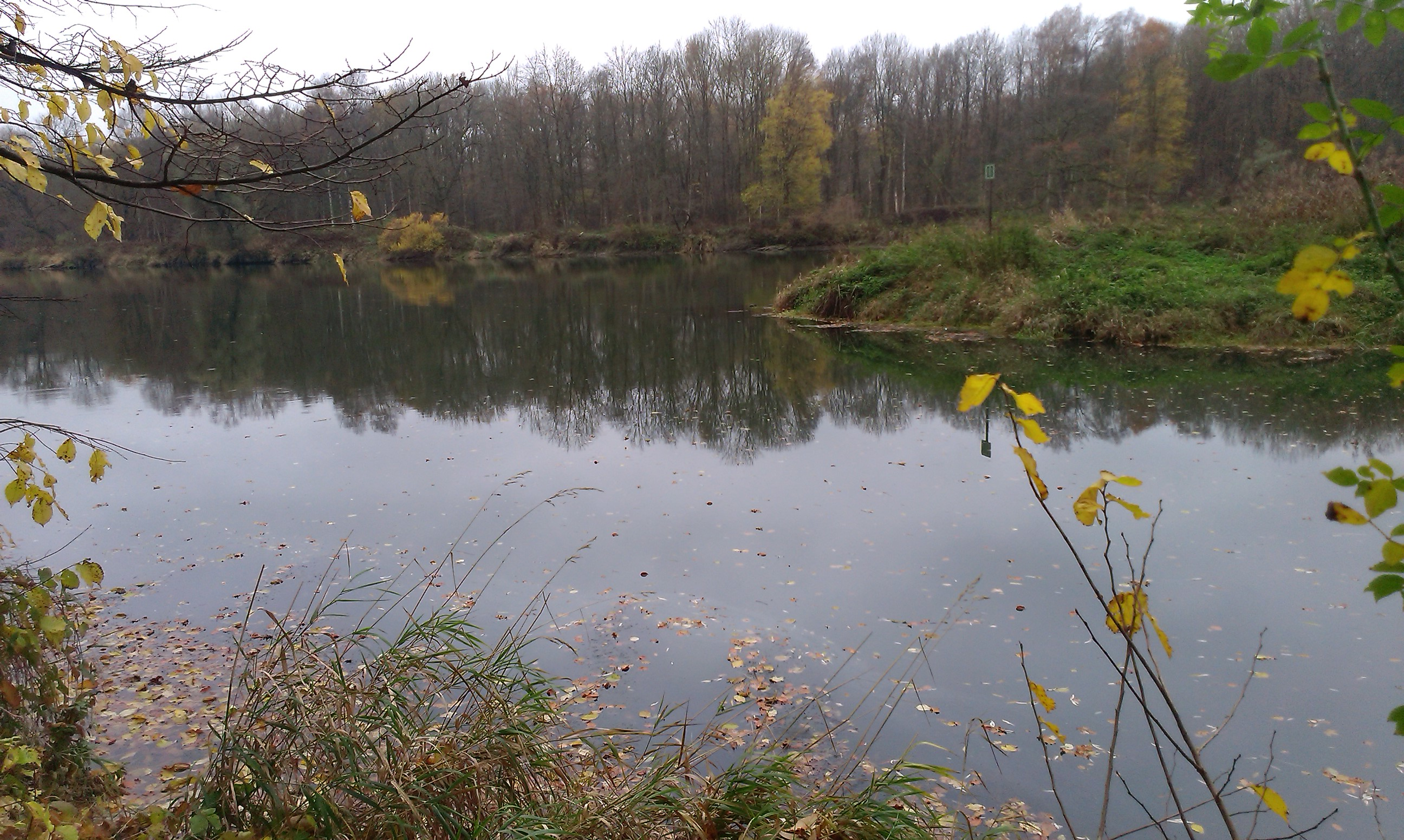 Water mouth of the river Ussel in the Danube